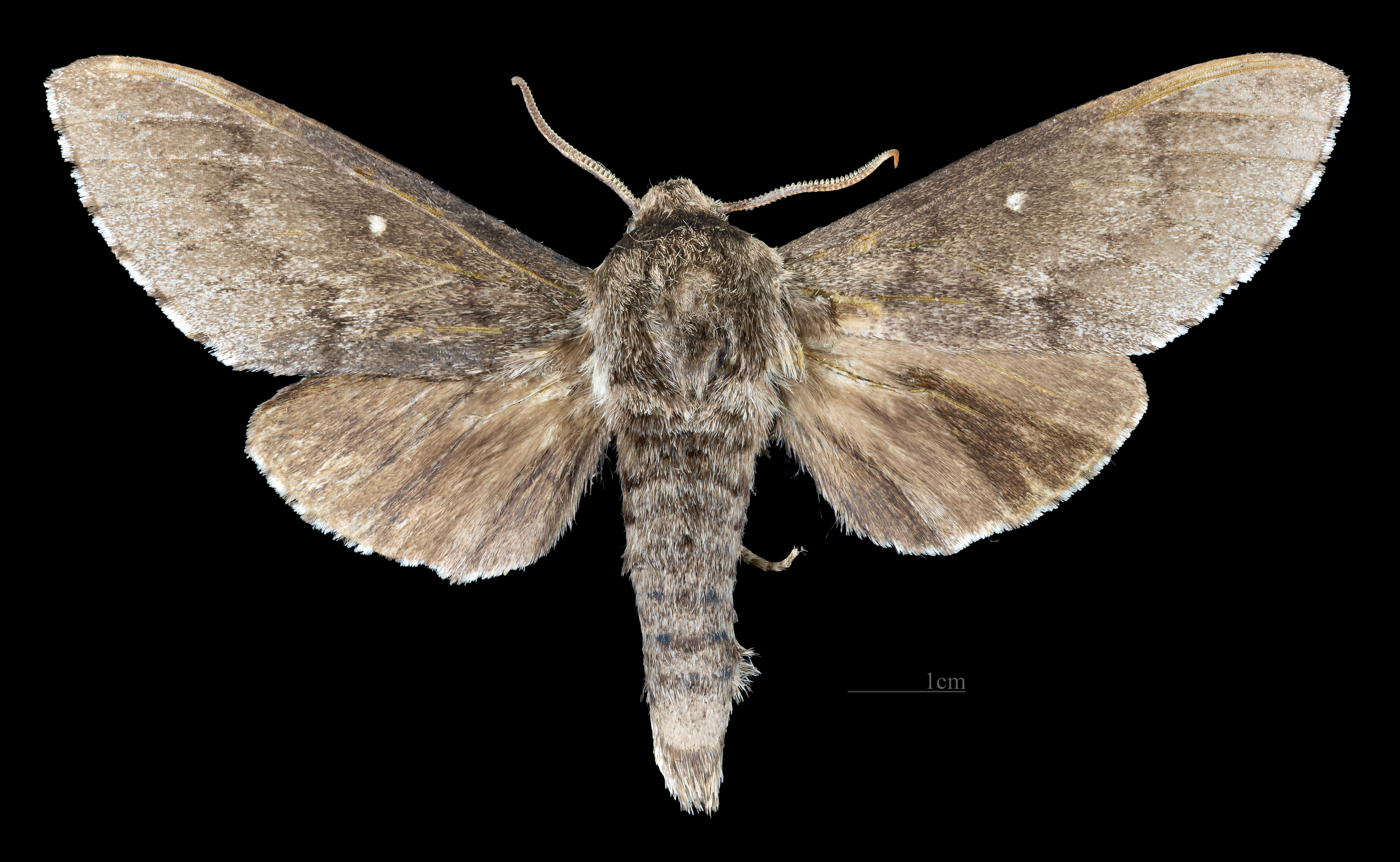 Sphingulus mus - Dorsal side Collection of the Mathematician Laurent Schwartz